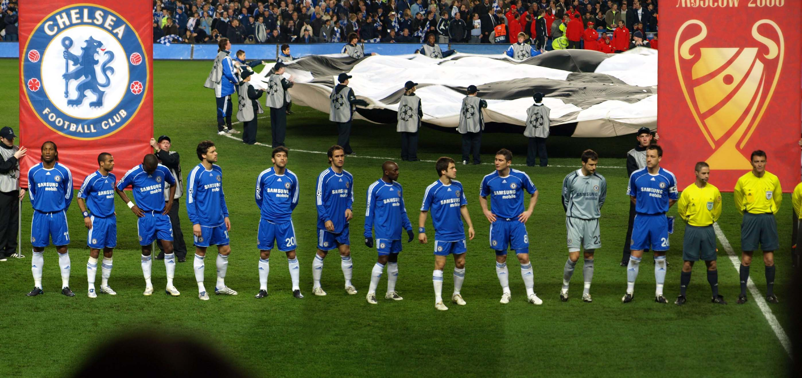 Merged images Image:Chelsea Olympiakos CL07-08 02.jpg and Image:Chelsea Olympiakos CL07-08 03.jpg using Adobe Photoshop